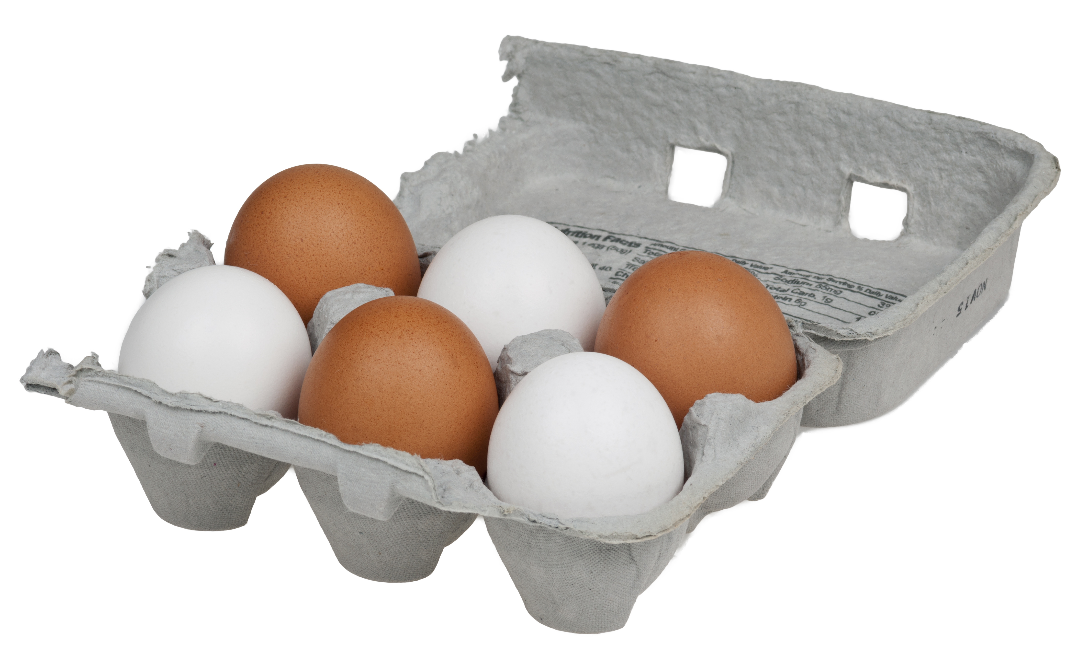 A six pack of organic chicken eggs, from a New York CSA. Included is a mix of white and brown eggs in a standard egg crate.